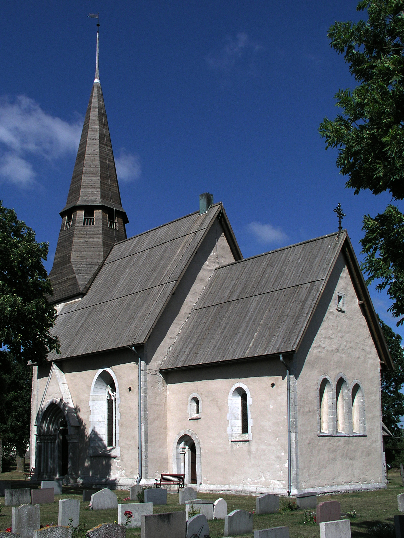 Ardre church, Diocese of Visby, Sweden. Gotlands kommun, Garde församling.